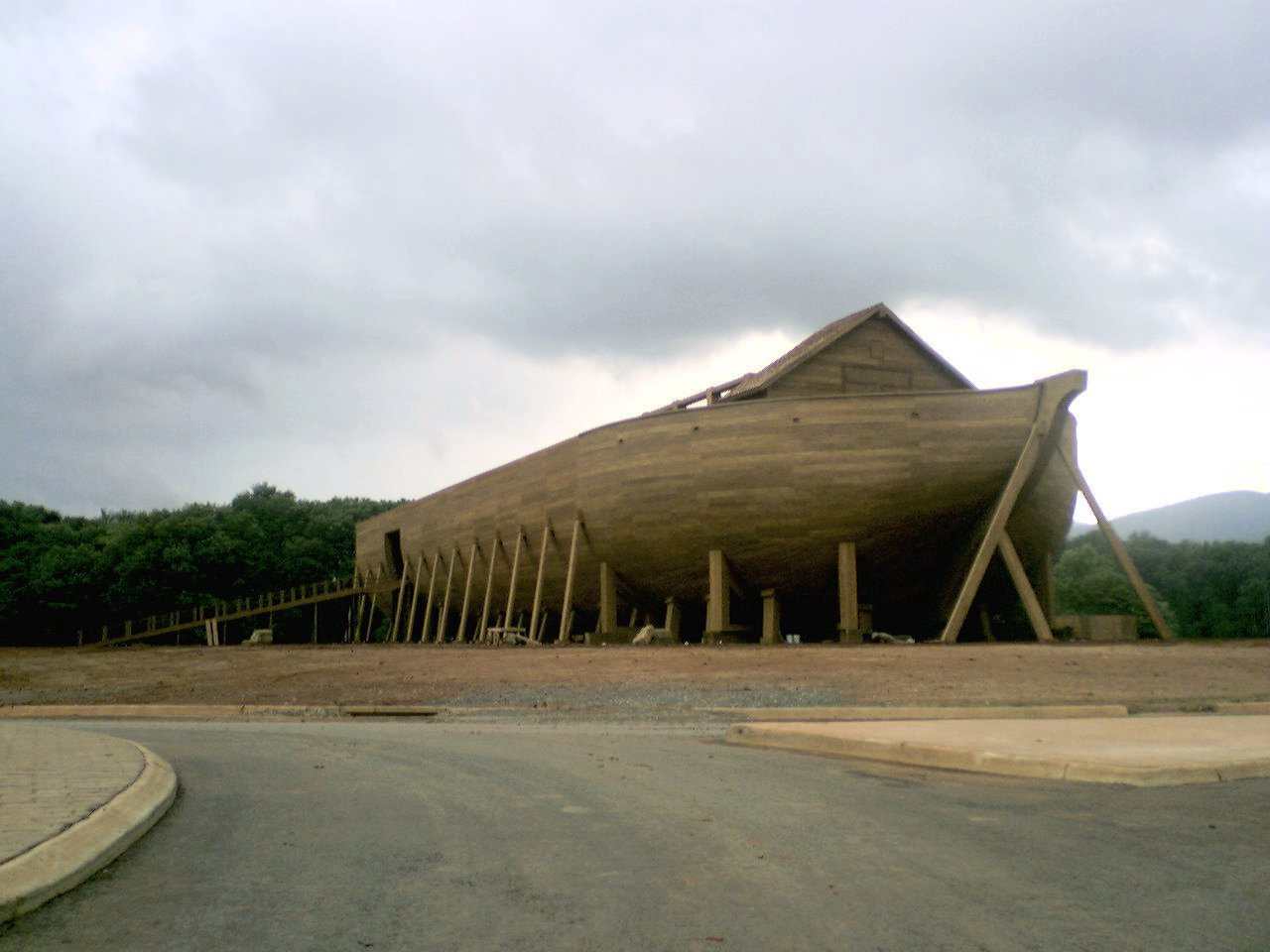 The ark from the film Evan Almighty, at the filming location in Crozet, Virginia. Photo by Ben Schumin on June 24, 2006.